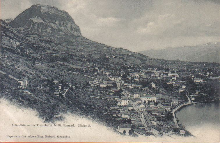 Carte postale ancienne